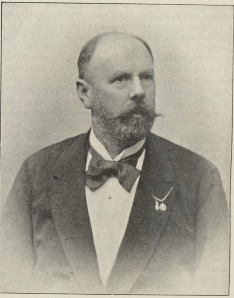 Bernhard Johannes (1846–1899), German photographer in Garmisch-Partenkirchen and Meran